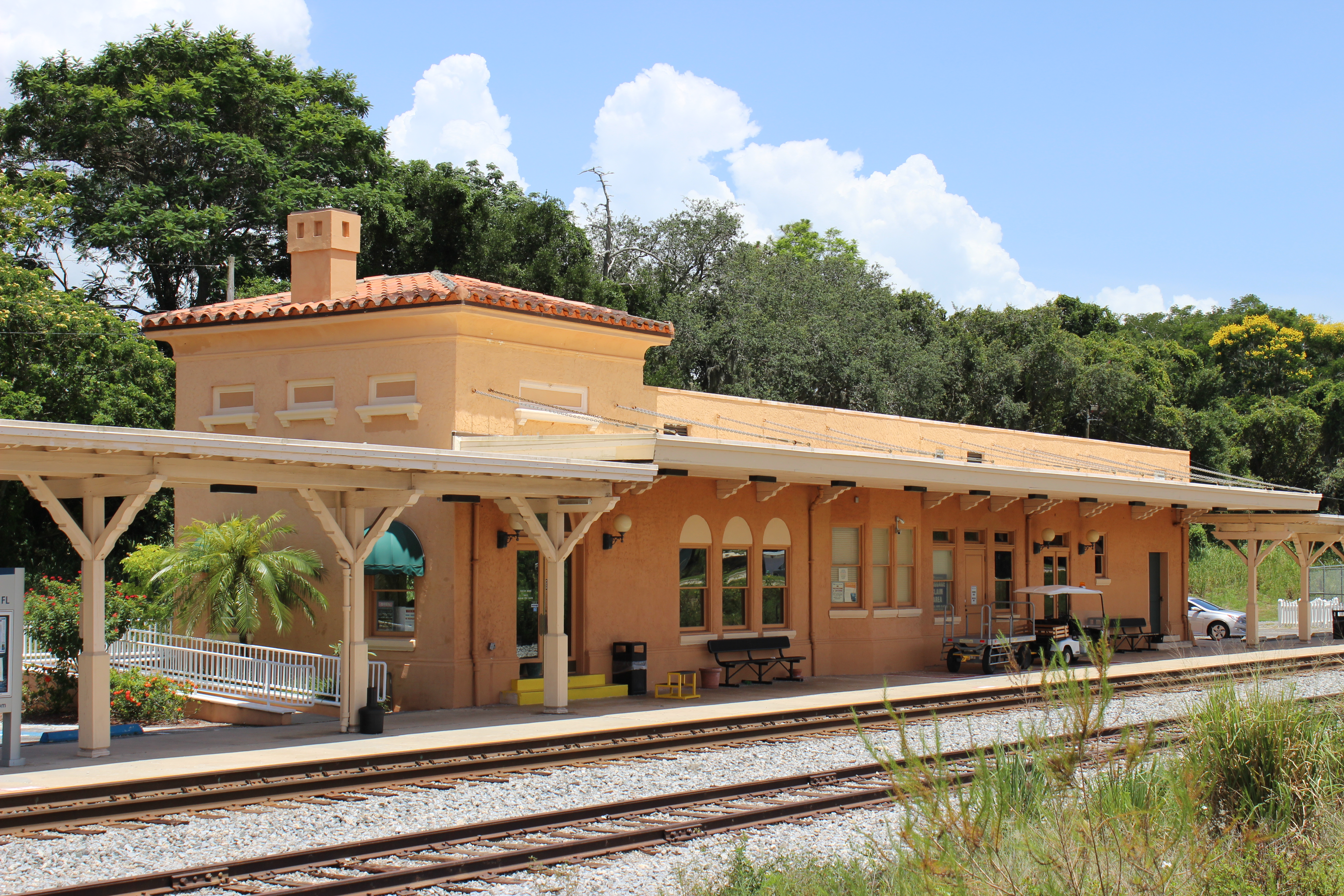 Sebring (FL) Train Station